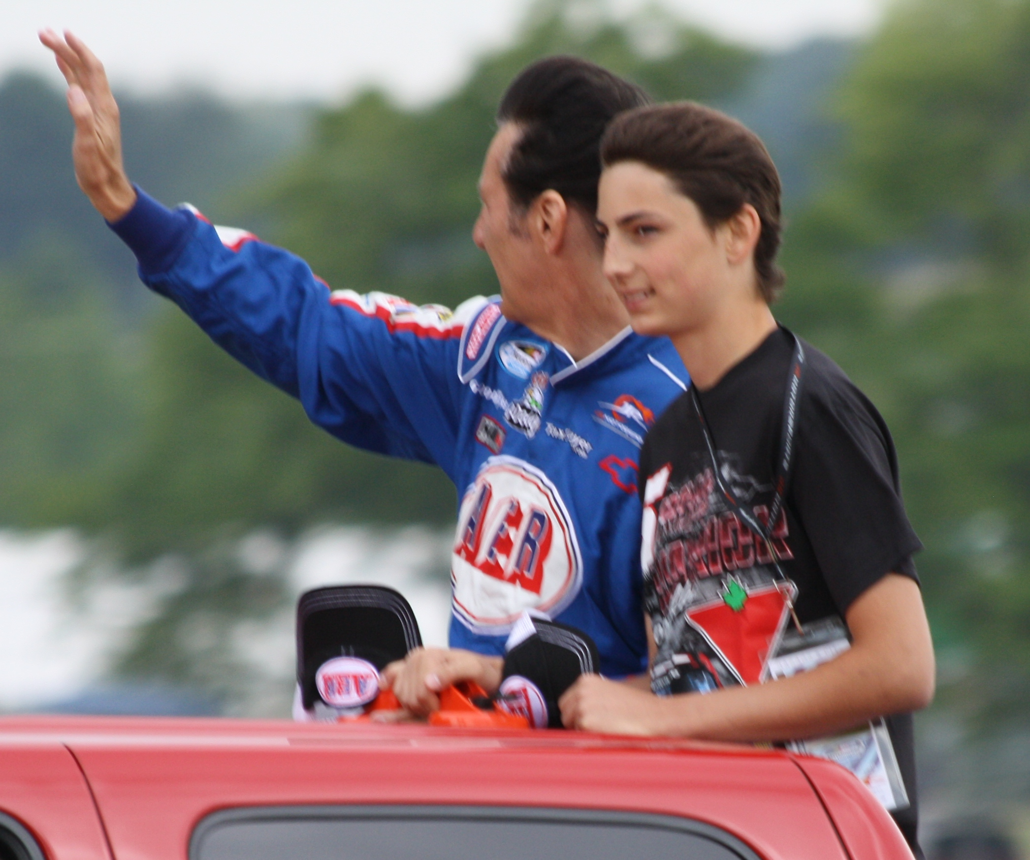 NASCAR driver Ron Fellows and his youngest son during driver's introductions at the 2012 Sargento 200 Nationwide Series race at Road America.